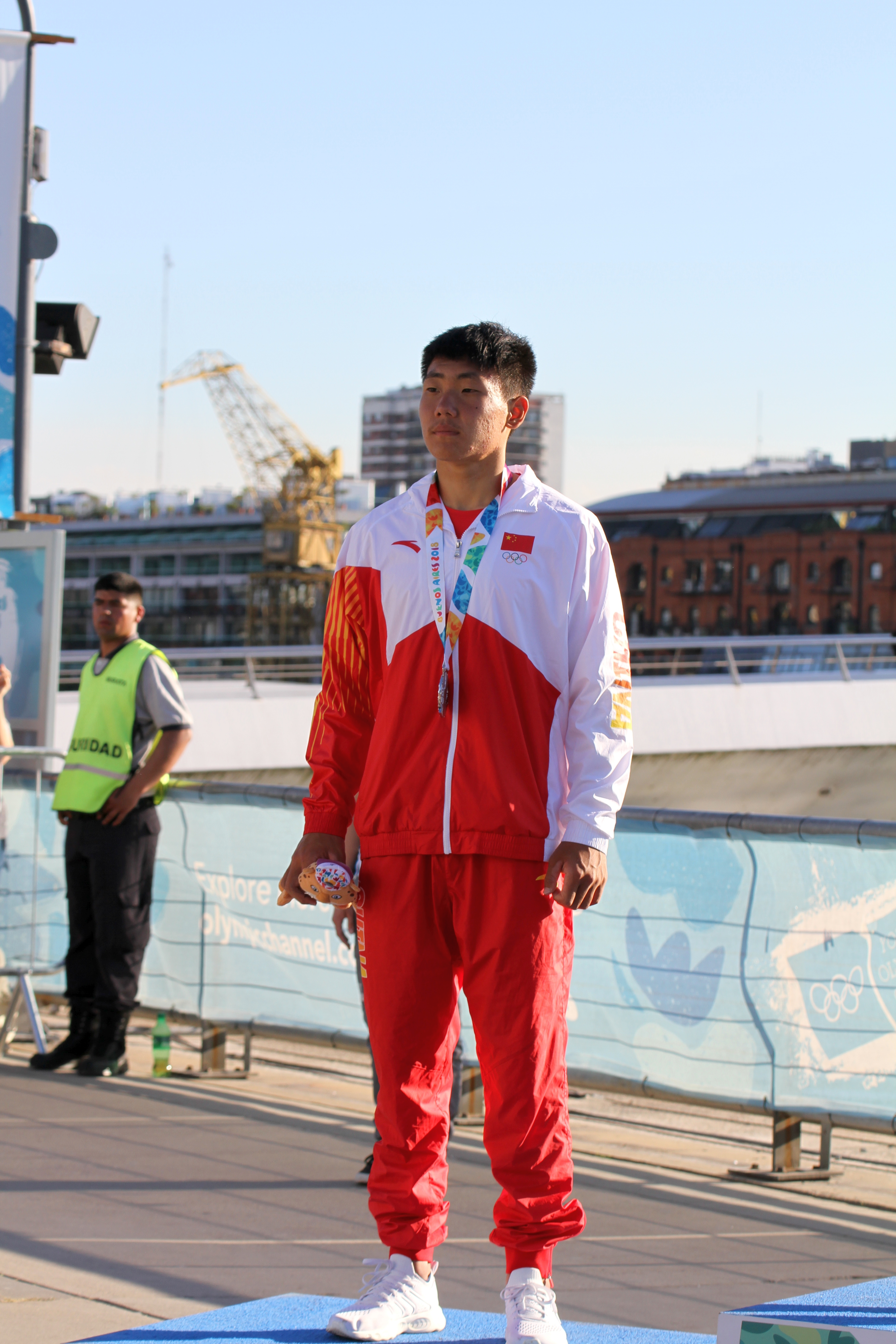 Canoeing at the 2018 Summer Youth Olympics at 16 October 2018 – Boys' K1 slalom Gold Medal Race: Lan Tominc (Slovenia, gold) - Guan Changheng (China, silver) - Tom Bouchardon (France, bronze)